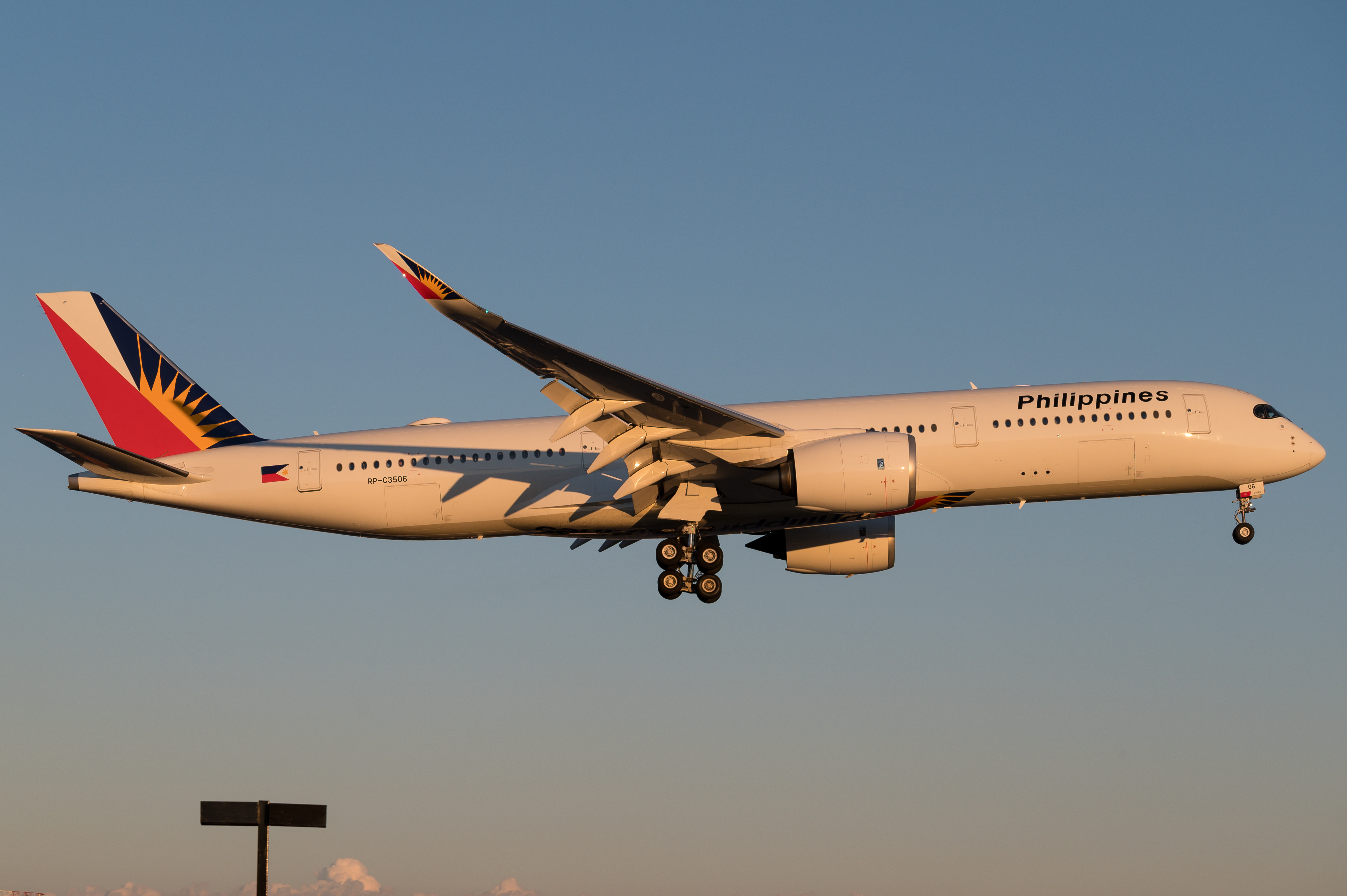 Arriving YYZ